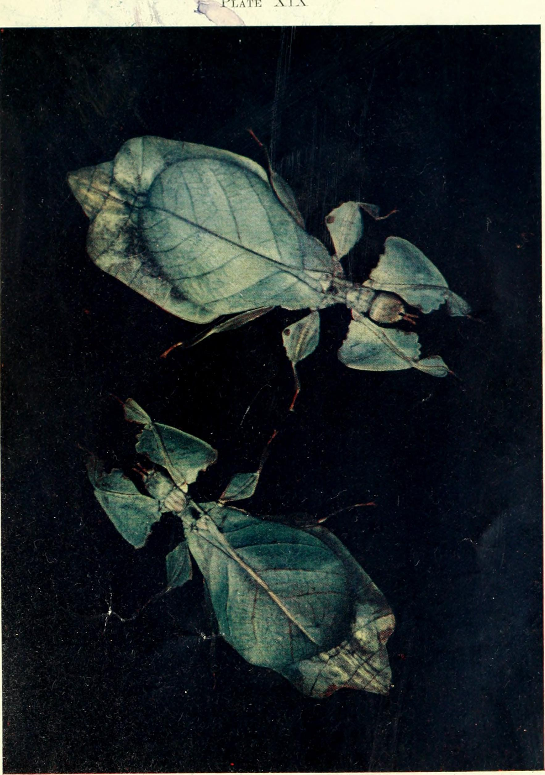 Title: Insects : their life-histories and habits Year: 1913 (1910s) Authors: Bastin, Harold Subjects: Insects Publisher: London : T.C. & E.C. Jack Text Appearing Before Image: y ; while some—such as our owngreen hair-streak butterfly (Tliecla rubi)—resemble livingfoliage. But the most wonderful green leaf insectsbelong to the genus Phyllium, of the family Phasmidas.They are found only in the tropics of the Old World, andhave a peculiar penchant for island life. The females aremuch more leaf-like than the males because the tegmina,or fore-wings (usually reduced or absent in other membersof the family), are large and foliaceous. In both sexes,however, the body is greatly flattened, while its colour is avivid green which, when submitted to spectral analysis, issaid not to differ from that of the living leaf. It is evenrecorded that Mr. J. J. Lister, when in the Seychelles,brought away living specimens of Phyllium; and these,becoming short of food, nibbled pieces out of one another,just as they might have done out of leaves, . . . but con-fined their depredations to the leaf-like appendages andexpansions. Still more remarkable is the fact that the Plate XIX Text Appearing After Image: i otective Resemblance : Phyllium crurijolium (two females). Ceylon Plate XX